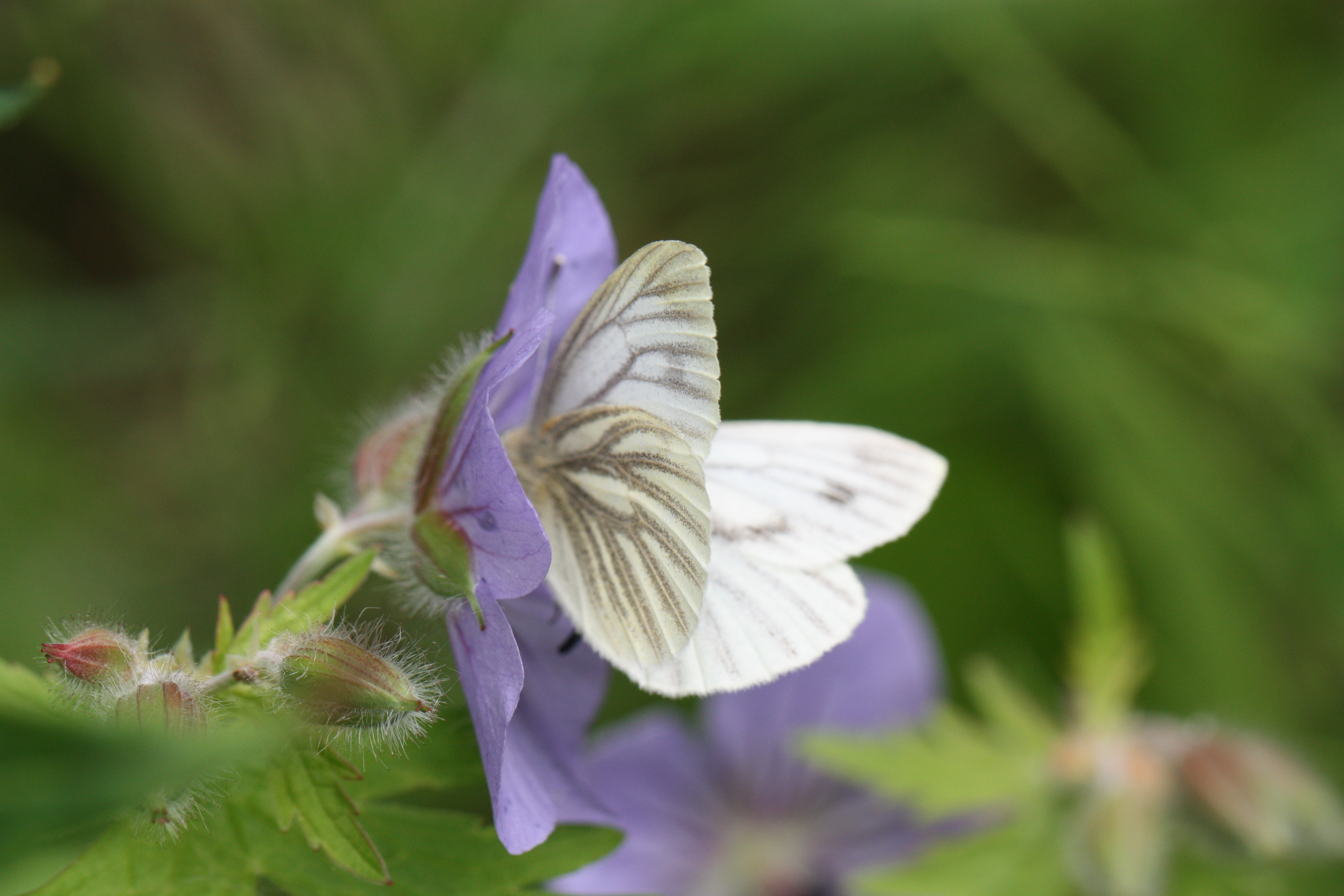 Arctic White on Geranium erianthum